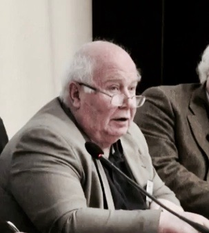 Jacques Revel is a French historian